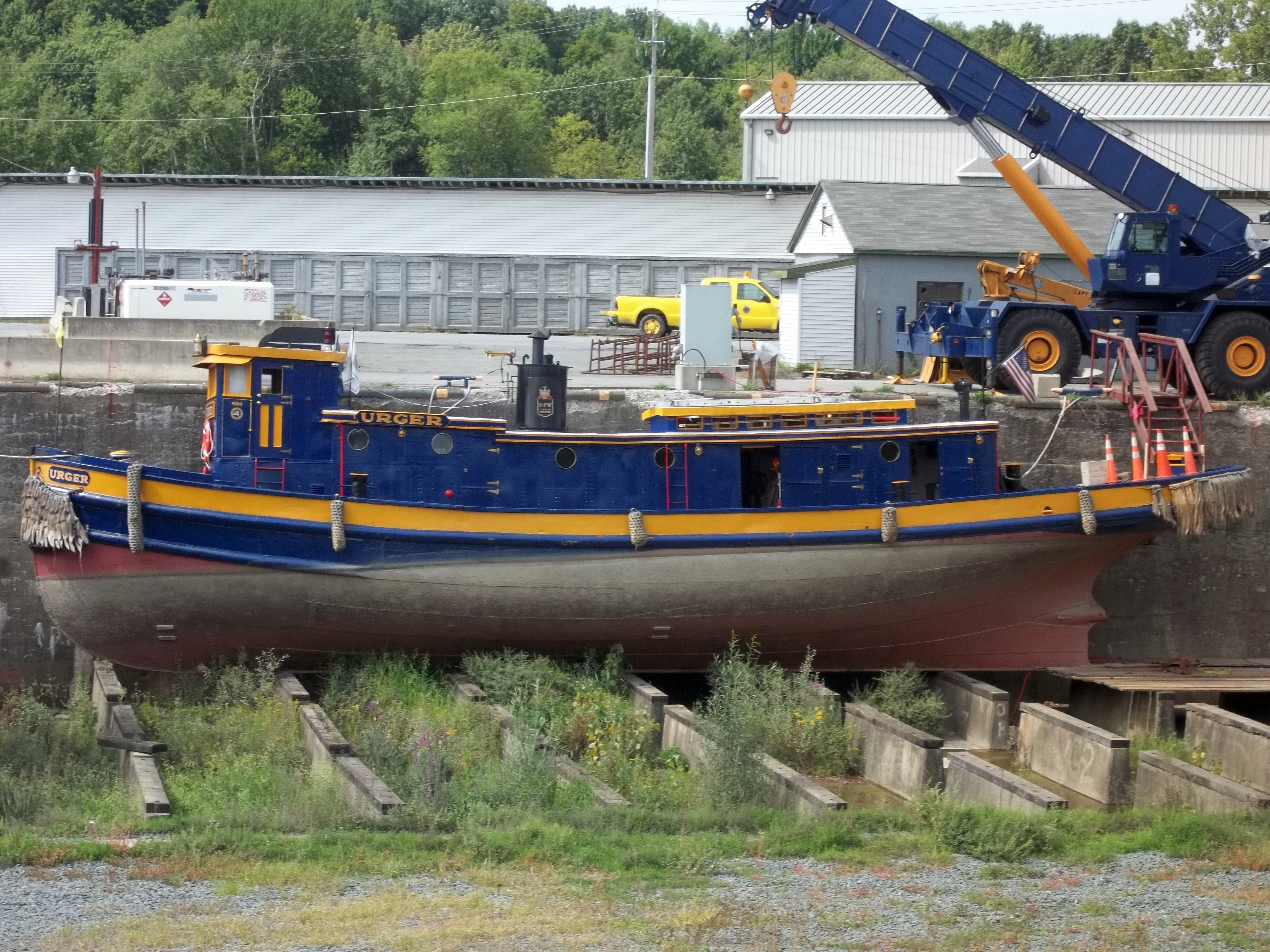 Urger (canal tugboat). In drydock in September 2013 at the Waterford Drydock, which is co-located with Lock 3 of the Erie Canal in Waterford, NY.